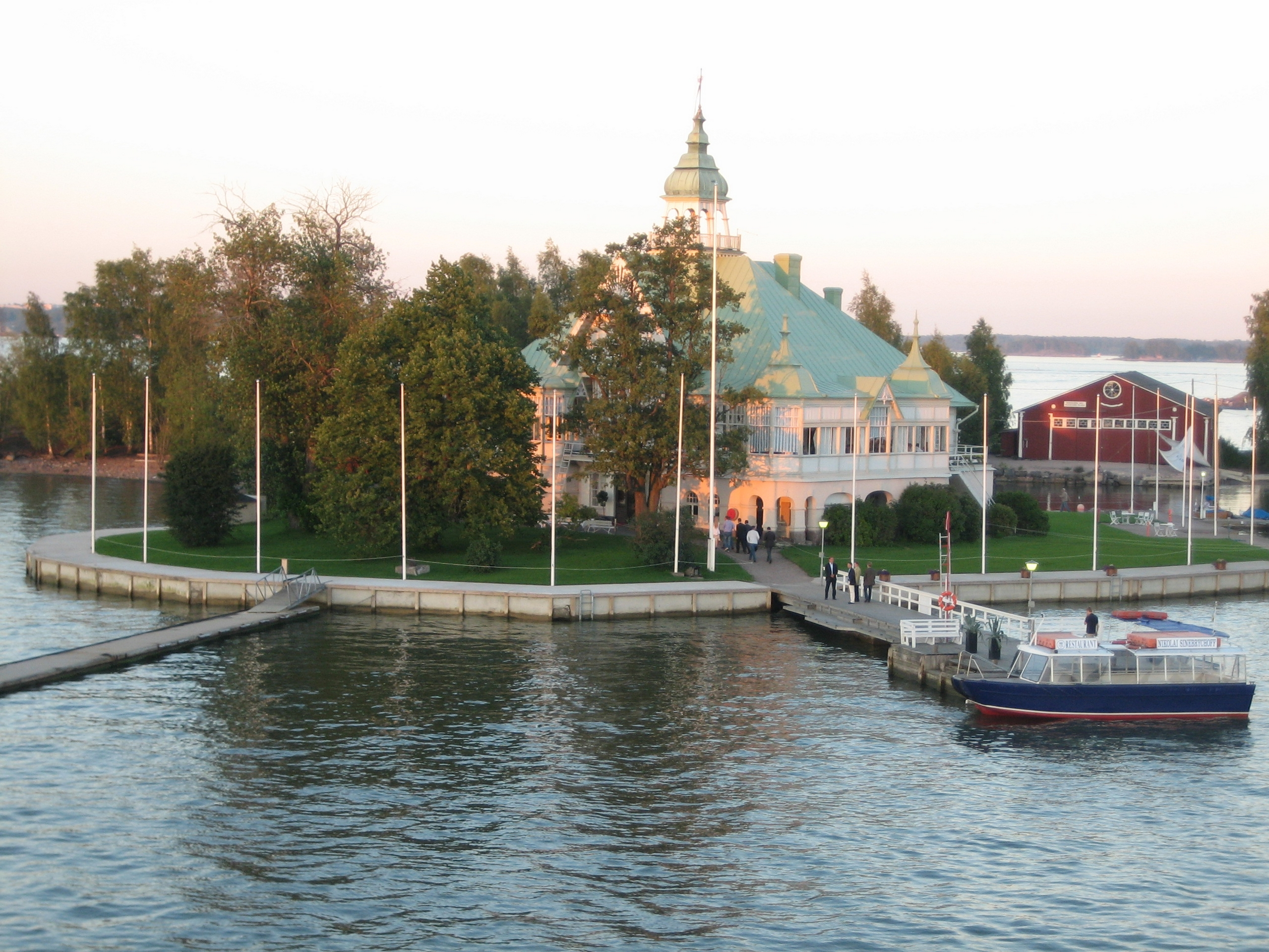 NJK's restaurant on Valkosaari in front of Helsinki centre